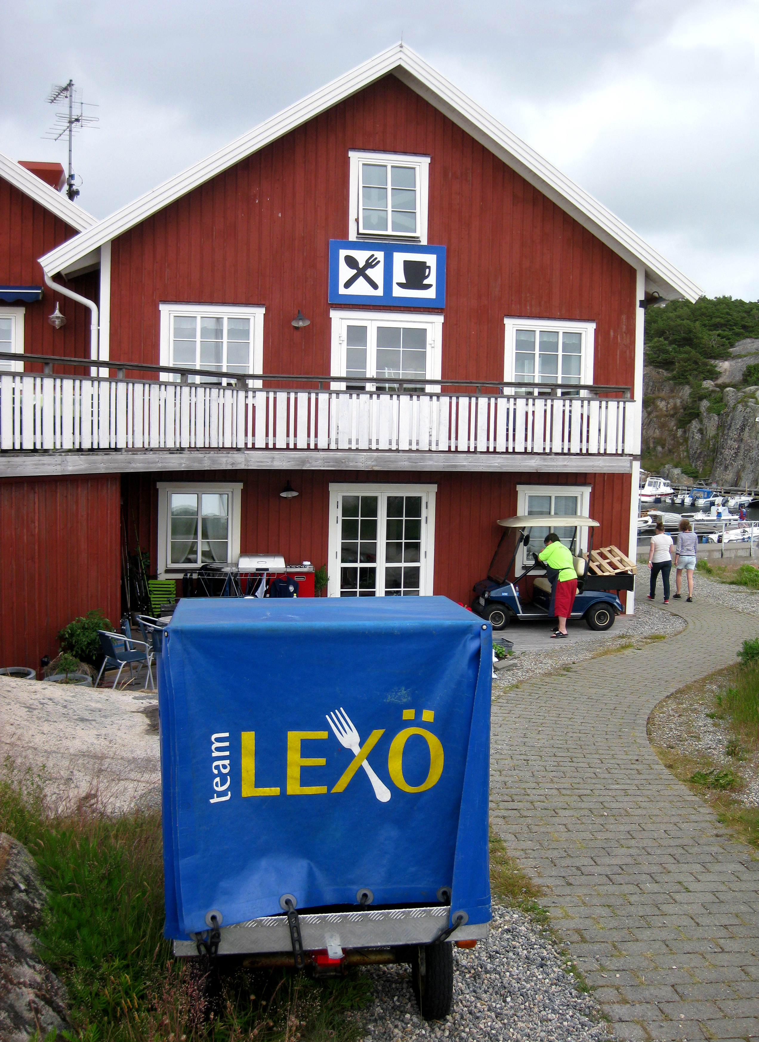 The backside of the "Lexö på Resö" restaurant. In the foreground you can see a moped (with three wheels) that belongs to "Team Lexö". The man in green is Dan Lexö (owner of the restaurant), and the girls on the right are Josefin and Lena Larsson.